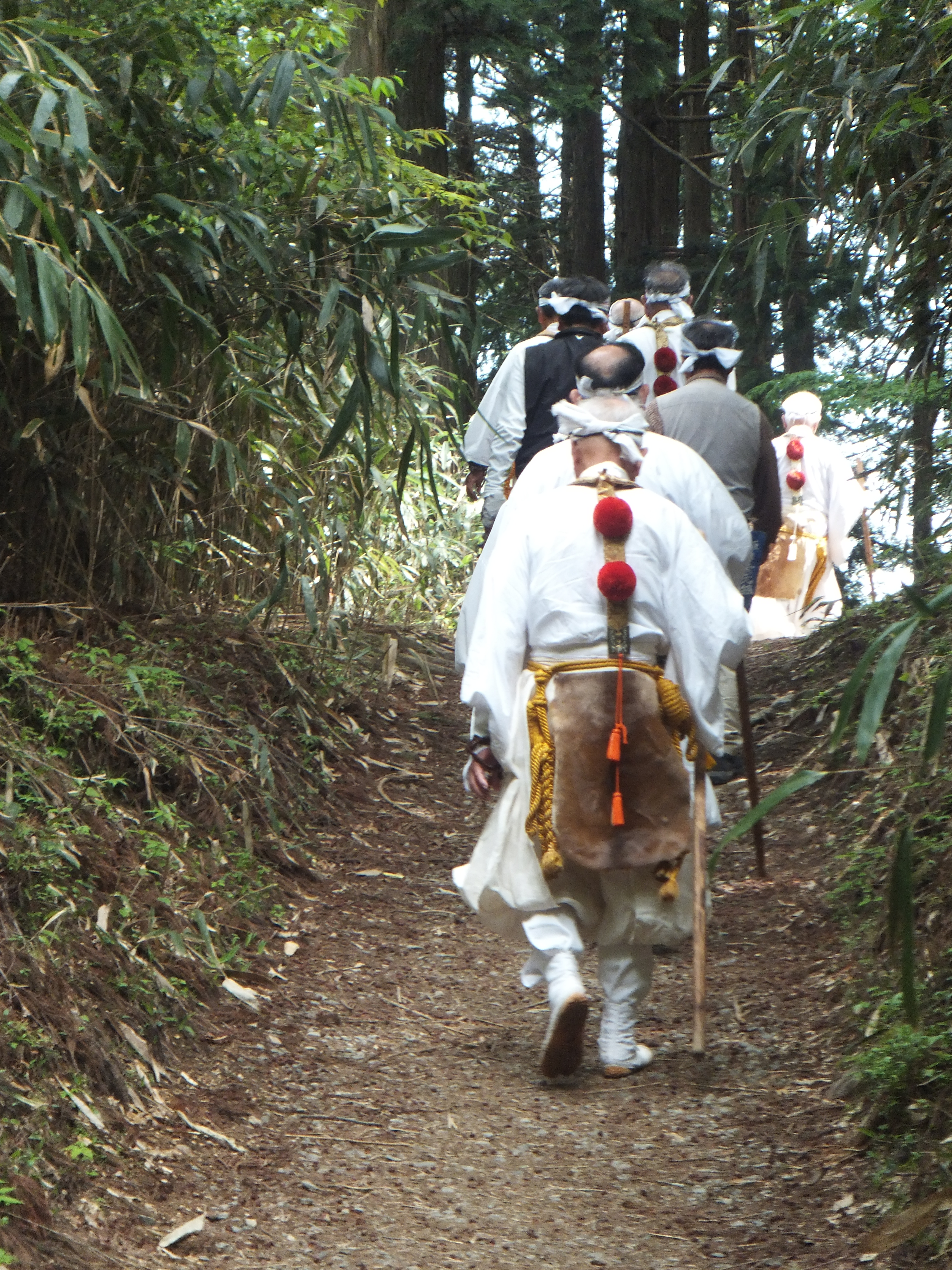 Yamabushi on the Ōmine Okugakemichi near Yoshino (Japan)